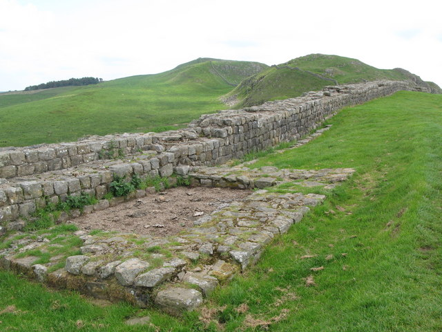 Turret 41a Looking roughly east towards Caw Gap.